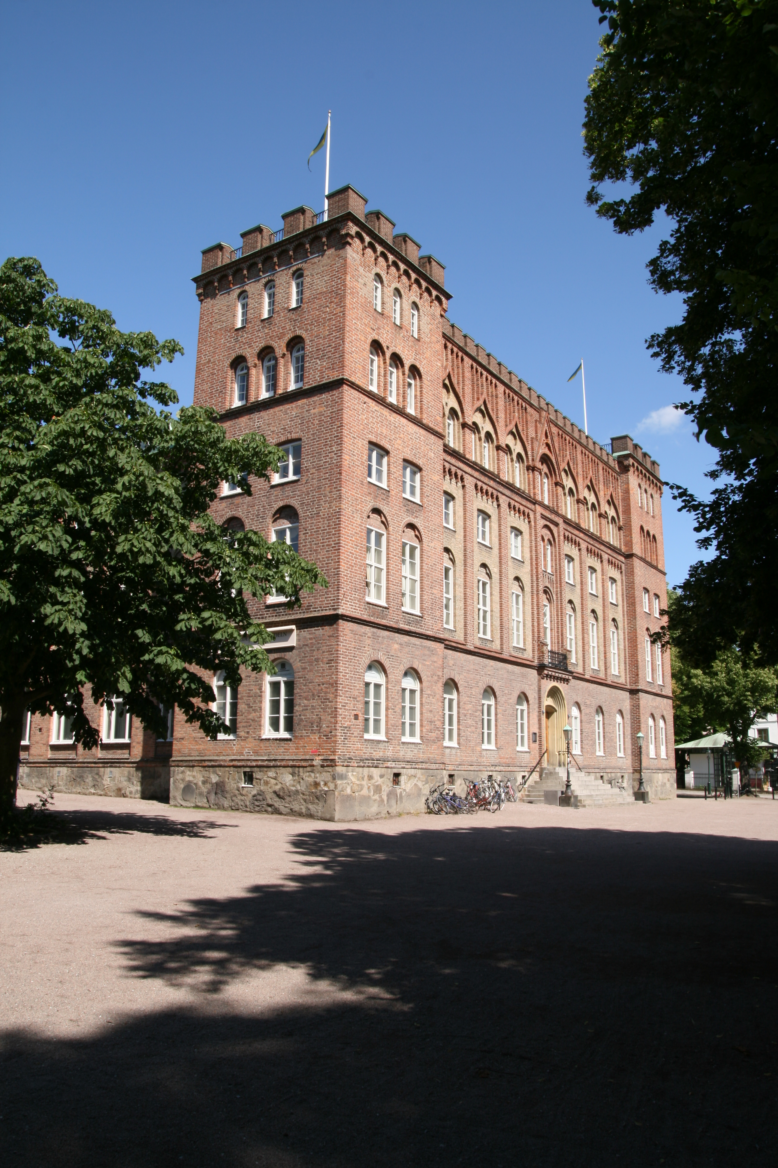 The south-west corner of the AF building in Lundagård, Lund, Sweden.